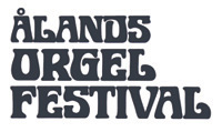 Ålands orgelfestivals logo